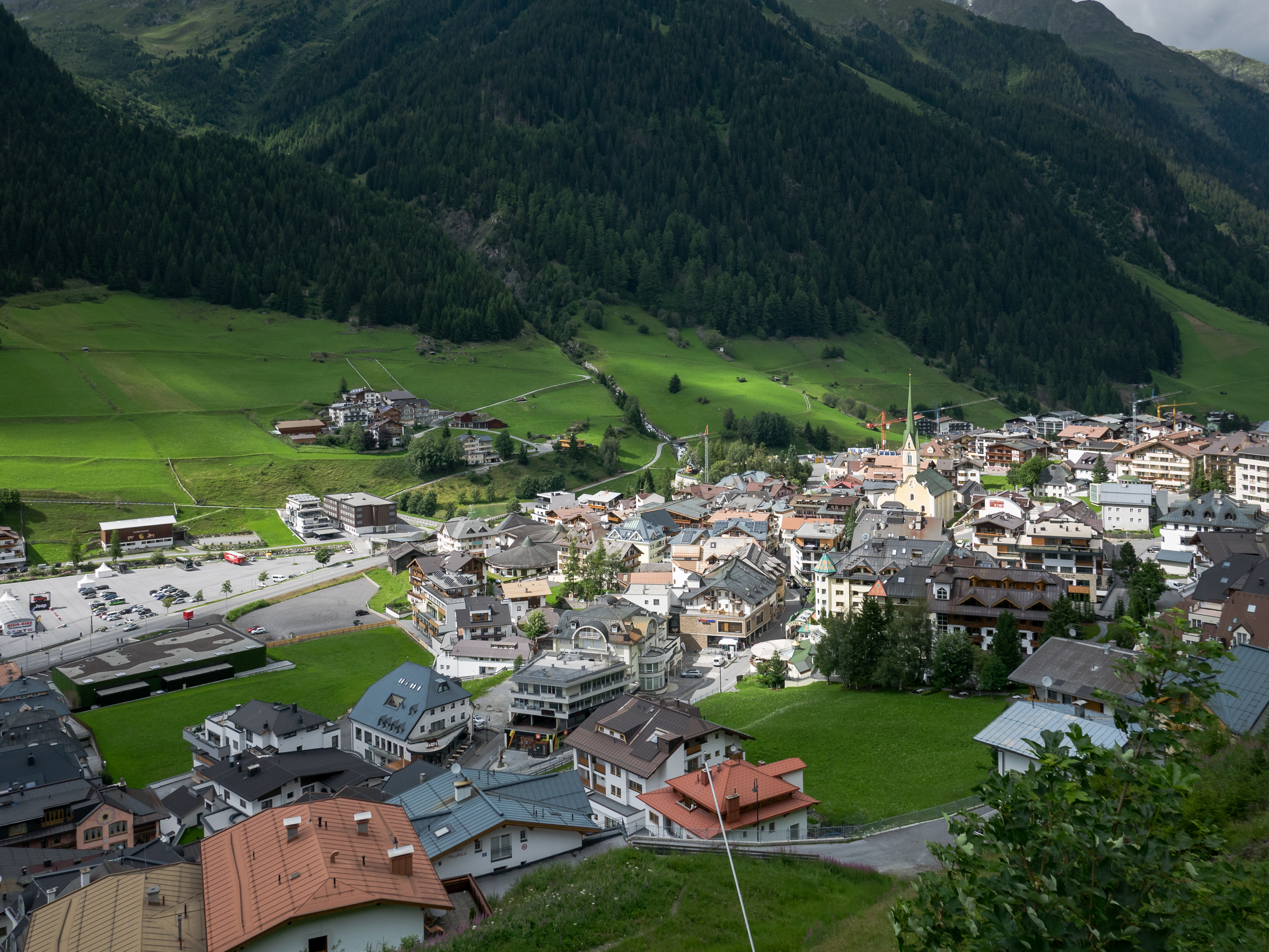 View over Ischgl. Paznaun, Tyrol, Austria